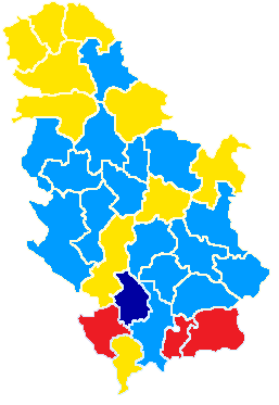 Serbian parliamentary election,2012 - distribution of vote by district SNS DSS DS SPS